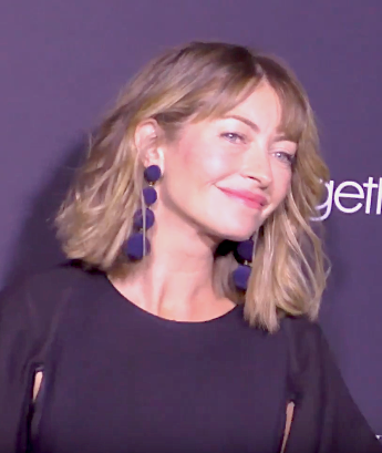 Rebecca Gayheart attending the 2nd Annual Baby Ball Gala, Los Angeles